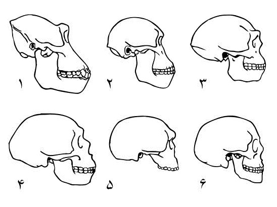 Skulls of 1. Gorilla 2. Australopithecine 3. Homo erectus 4. Neanderthal (La-Chapelle-au-Seine) 5. Steinheim Skull 6. Modern human